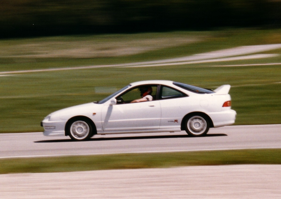 Honda Integra "Type R" (european version) on the straight of french racetrack "Le Laquais"